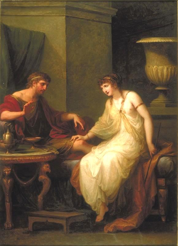 Angelica Kauffmann's painting of Circe enticing Ulysses, 1786